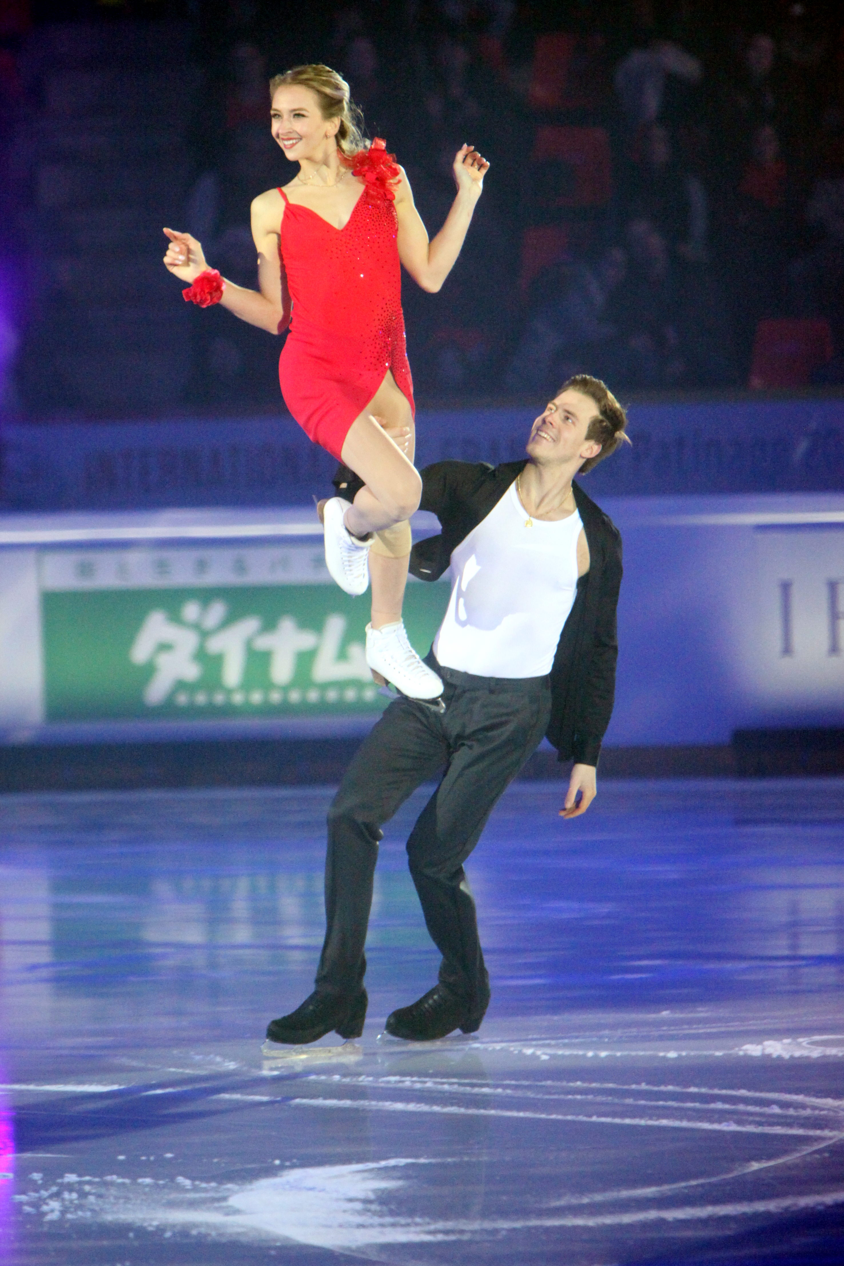 Victoria Sinitsina and Nikita Katsalapov during the gala at the Internationaux de France de Patinage 2018.